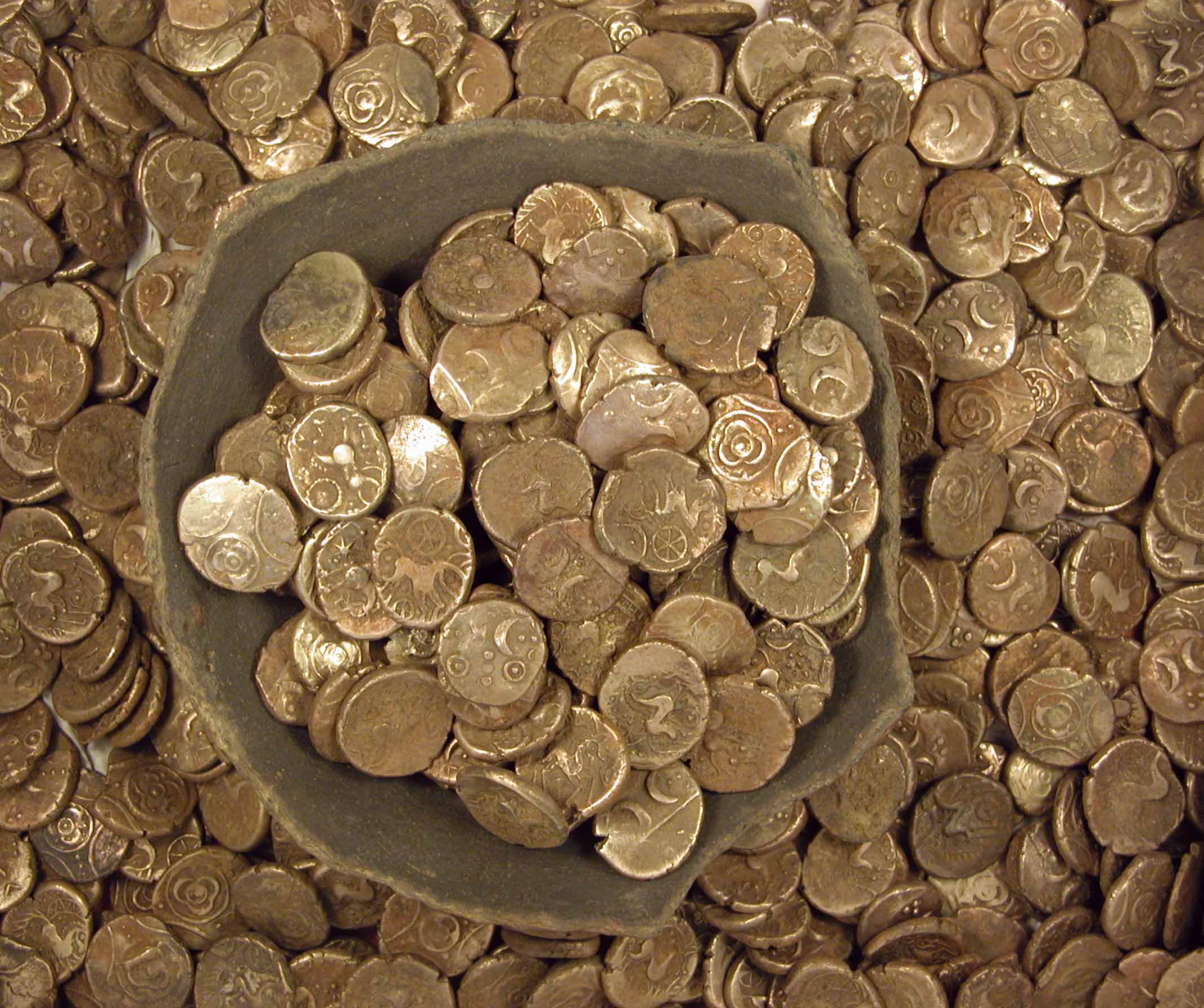 Wickham Market Iron Age coin hoard. Coins dating to 40 BC – 15 AD.